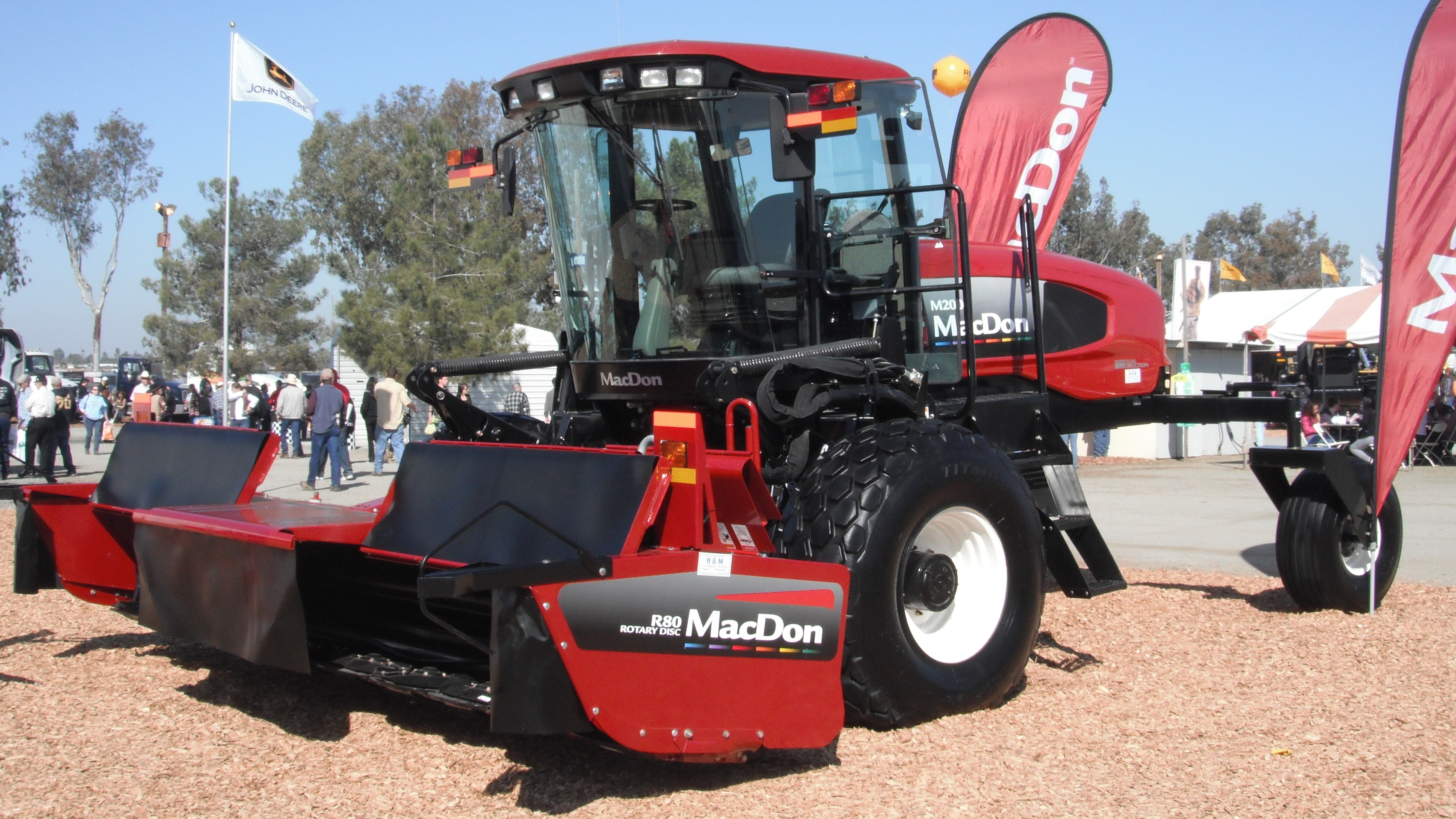 A windrower consists of a MacDon M200 with a R80 rotary discs implement at World Ag Expo 2011.